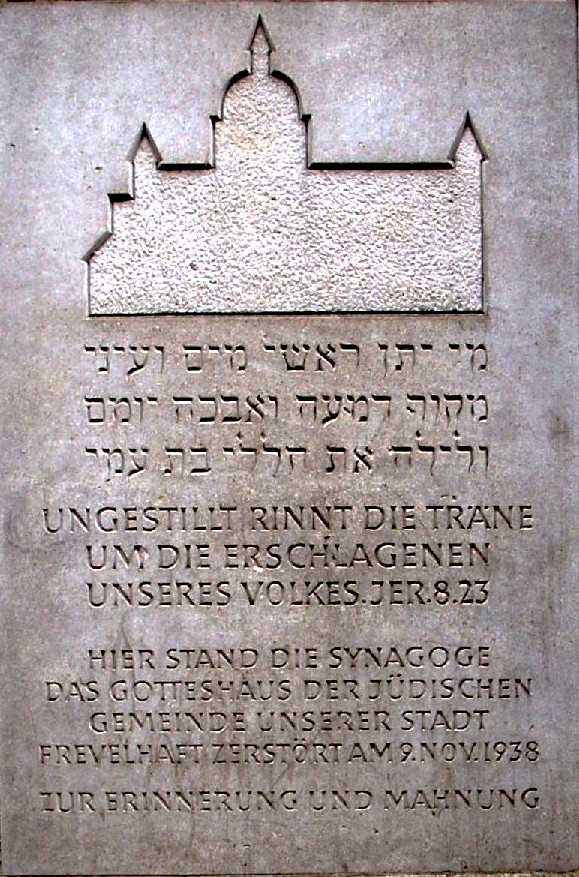 s